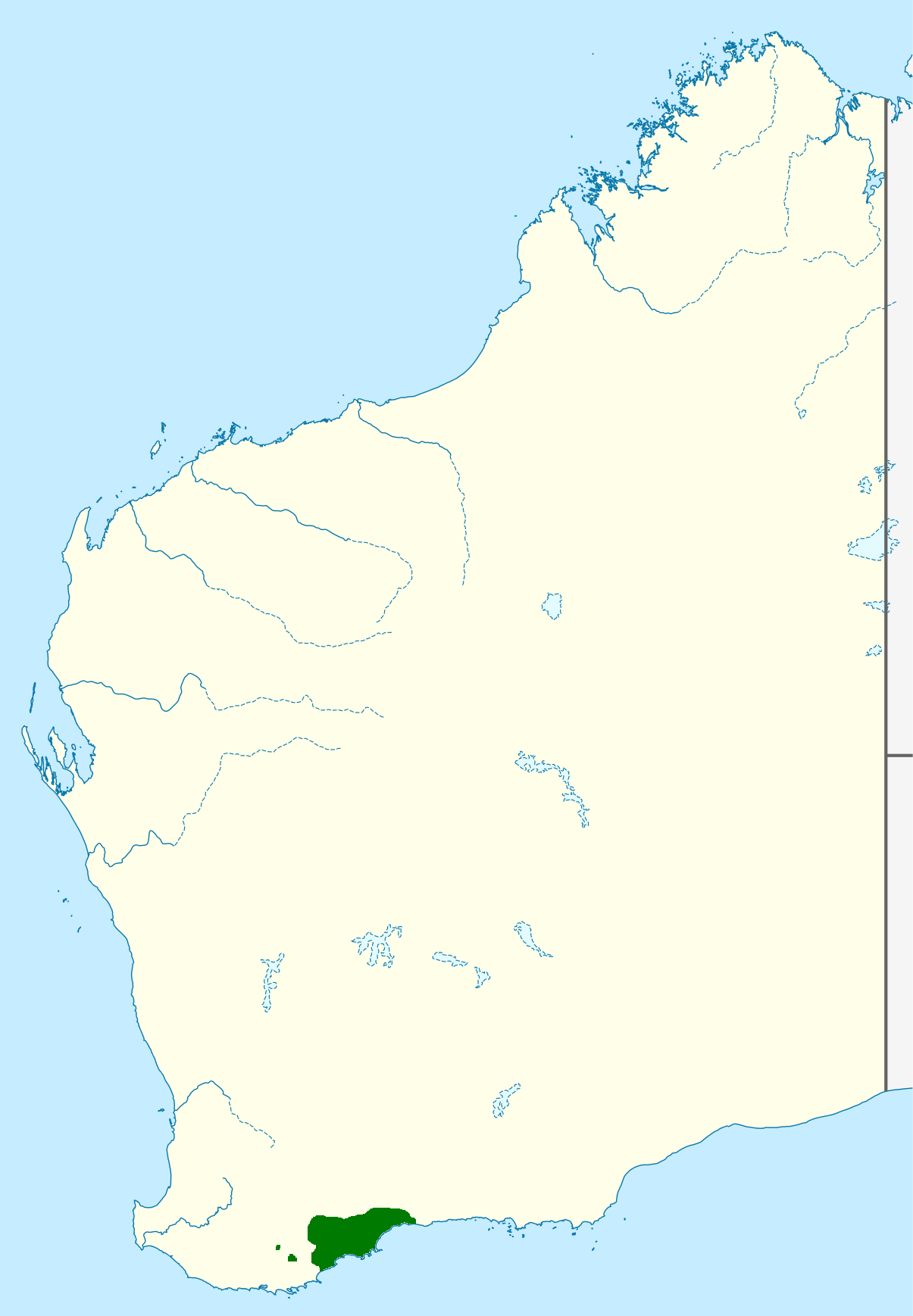 Range map of Banksia caleyi